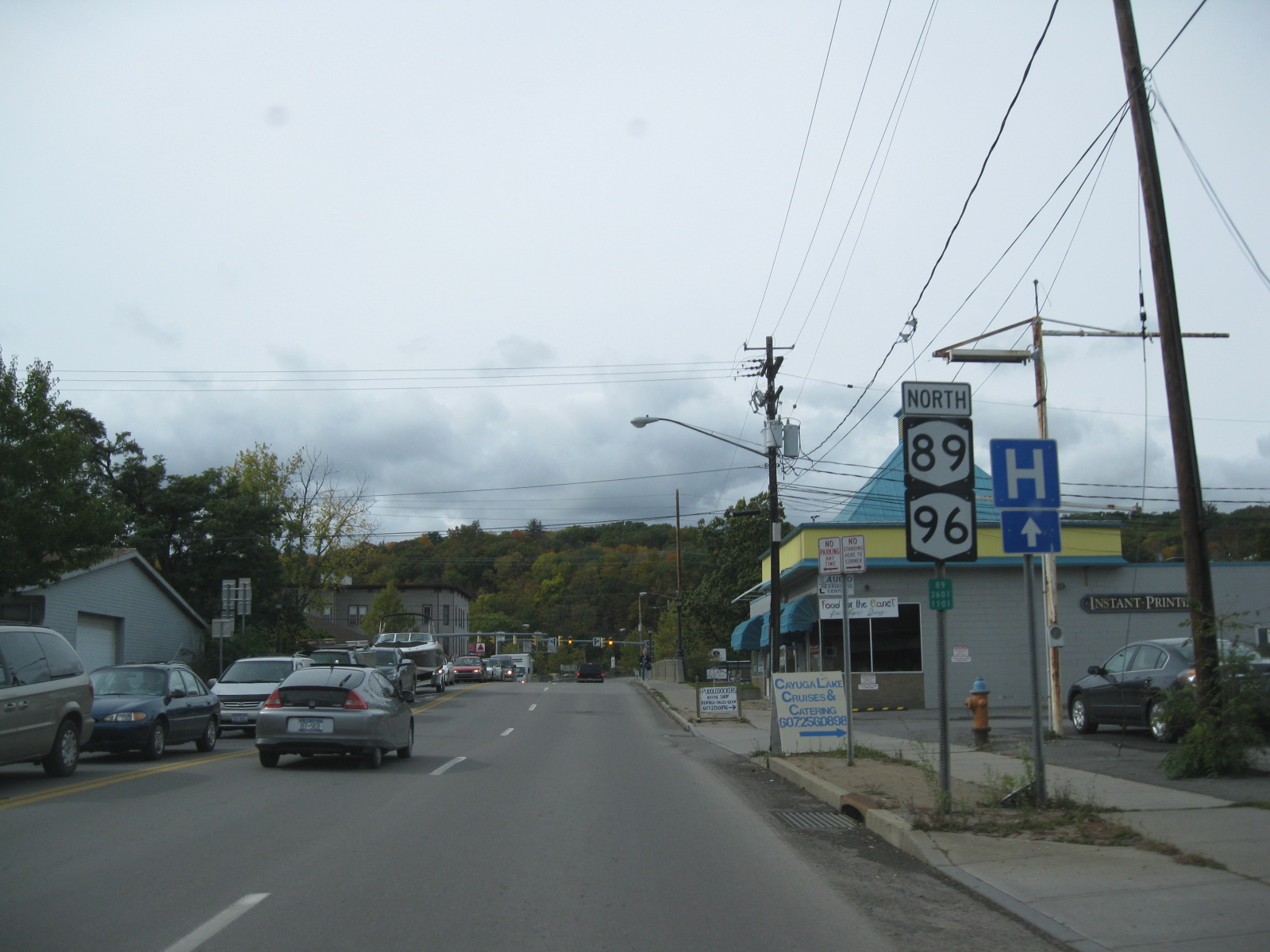 Northbound on New York State Route 89 and New York State Route 96 in Ithaca.